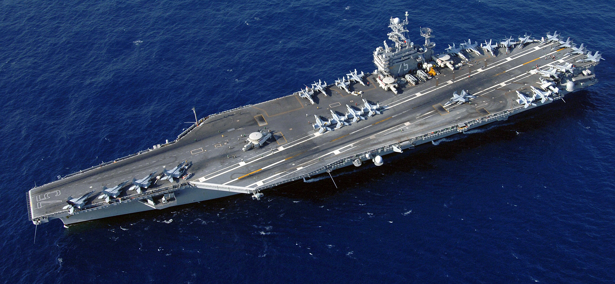 The U.S. Navy Nimitz Class Aircraft Carrier USS HARRY S TRUMAN (CVN 75), with embarked Carrier Air Wing 3 (CVW-3), sails through the Atlantic Ocean on April 3, 2007, while conducting a Tailored Ship's Training Availability (TSTA) to evaluates its readiness for deployment.